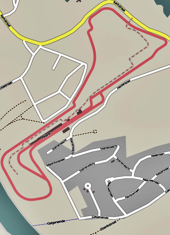 This map may be incomplete, and may contain errors. Don't rely solely on it for navigation.